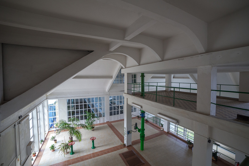 Úpravna vody Vyšní Lhoty - interiér, autor: Boris Renner